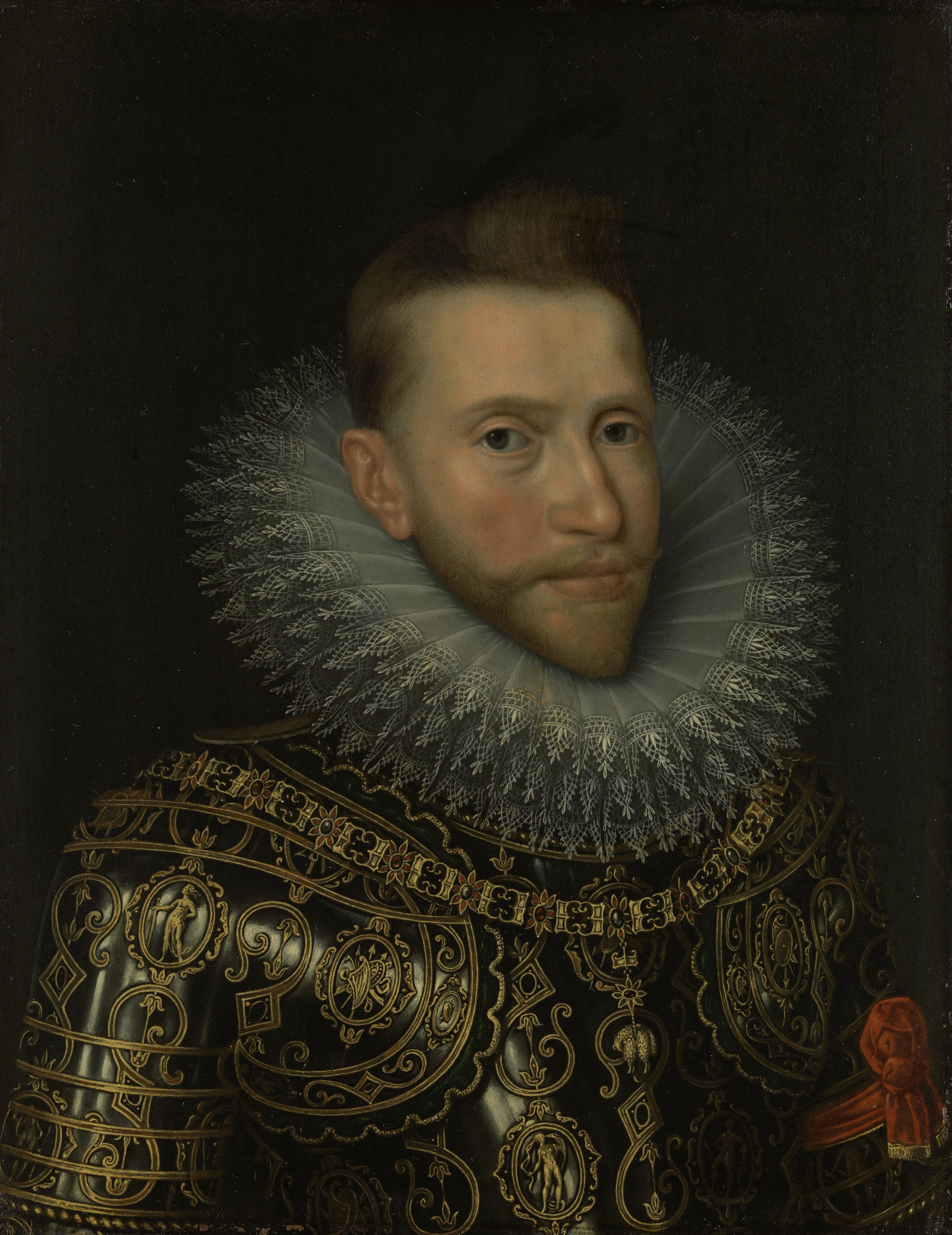 Portrait of Albert VII, Archduke of Austria. Bust facing right, in armor, wearing the chain of the Order of the Golden Fleece. Pendant of File:Isabella Clara Eugenia van Habsburg (1566-1633). Echtgenote van aartshertog Albertus van Oostenrijk Rijksmuseum SK-A-510.jpeg